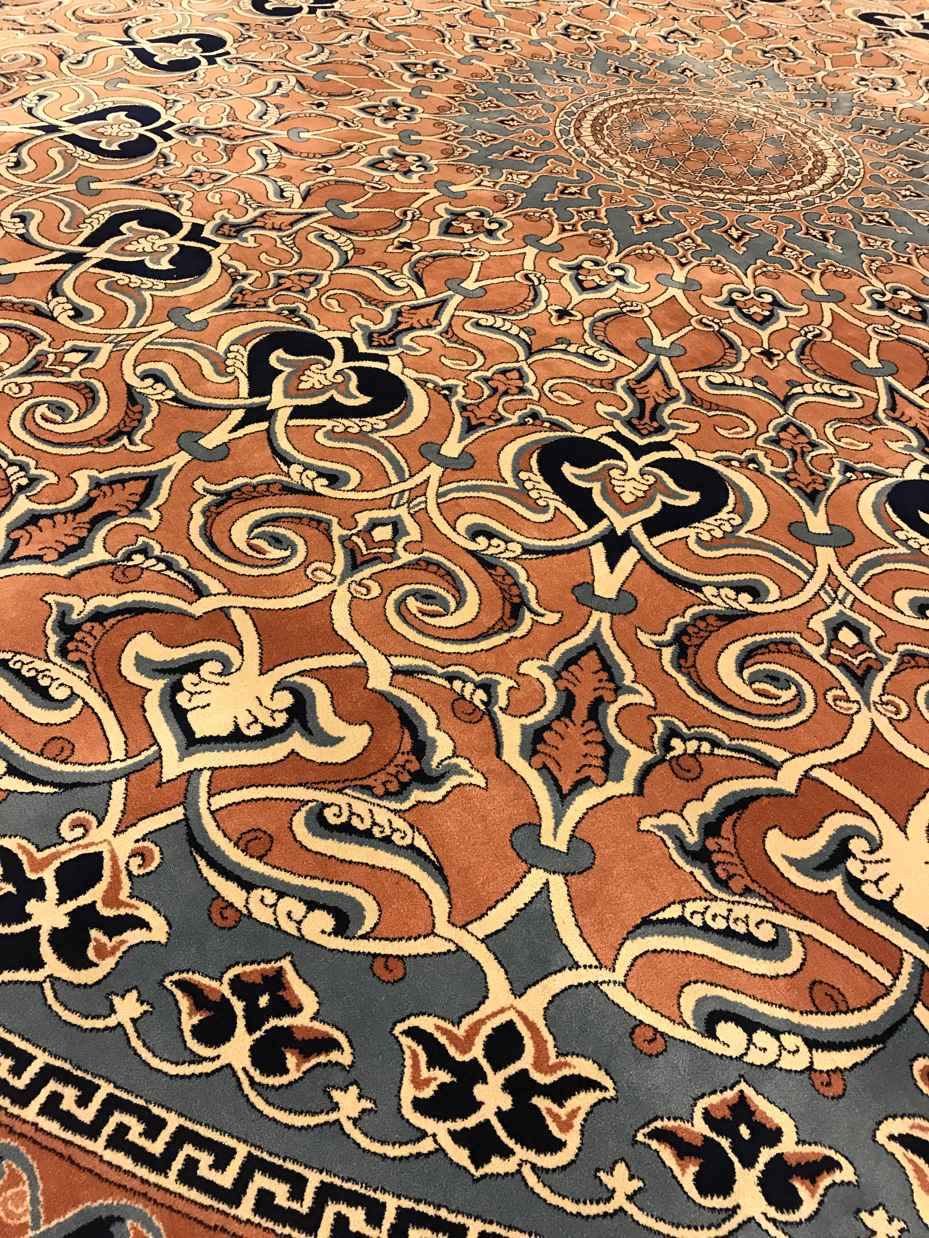 Şehzade Mosque, a 16th-century Ottoman imperial mosque located in the district of Fatih, on the third hill of Istanbul, Turkey. It was commissioned by Suleiman the Magnificent as a memorial to his favorite son Şehzade Mehmed who died in 1543. It is sometimes referred to as the "Prince's Mosque" in English. Suleiman is said to have personally mourned the death of Mehmed for forty days at his temporary tomb in Istanbul, the site upon which the imperial architect Mimar Sinan would construct a lavish mausoleum to Mehmed as one part of a larger mosque complex dedicated to the princely heir. The complex was Sinan's first important imperial commission and ultimately one of his most ambitious architectural works, even though it was designed early in his long career.